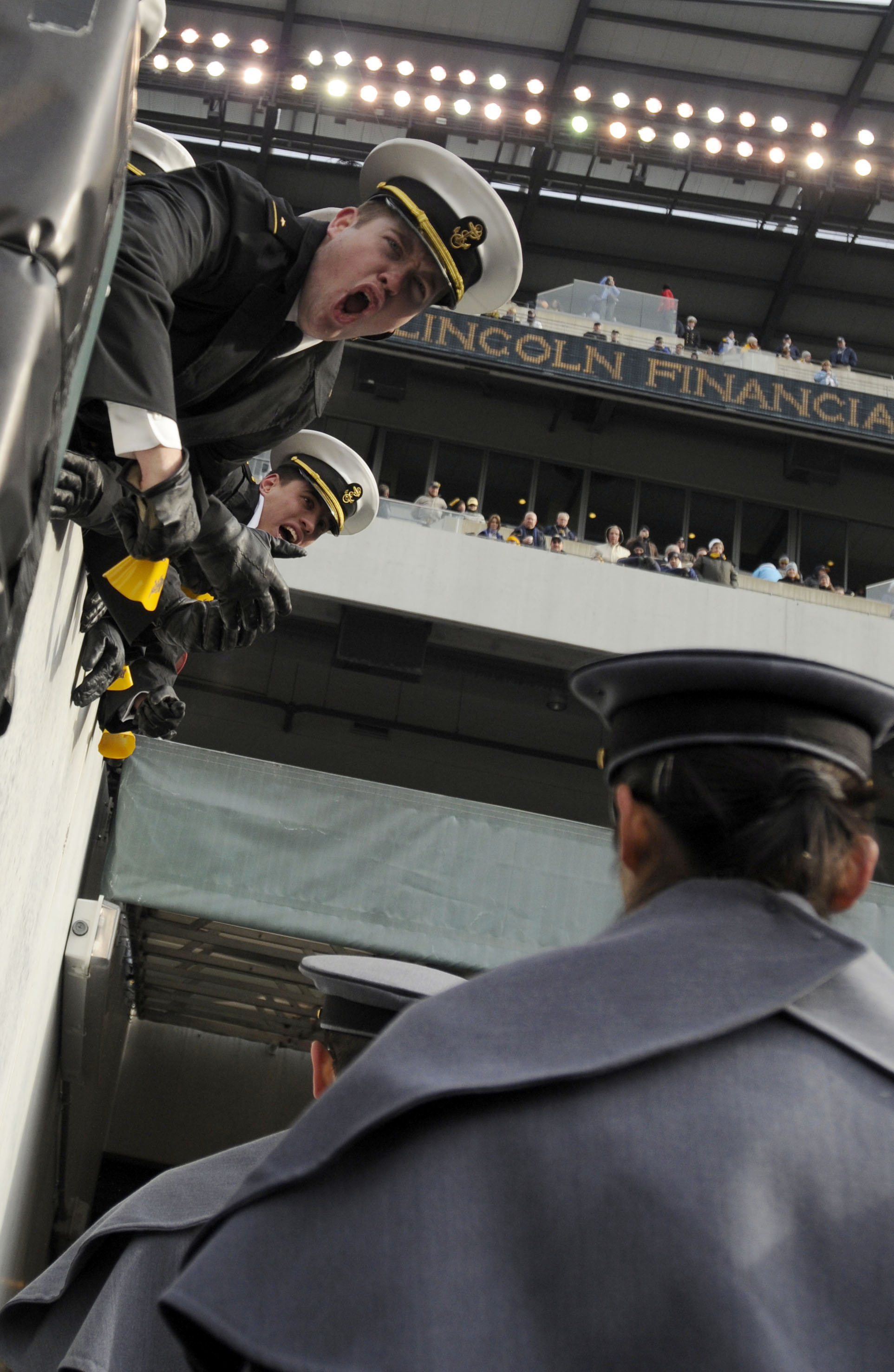 U.S. Naval Academy midshipmen taunt U.S. Military Academy cadets before the 109th Army-Navy college football game at Lincoln Financial Field in Philadelphia.